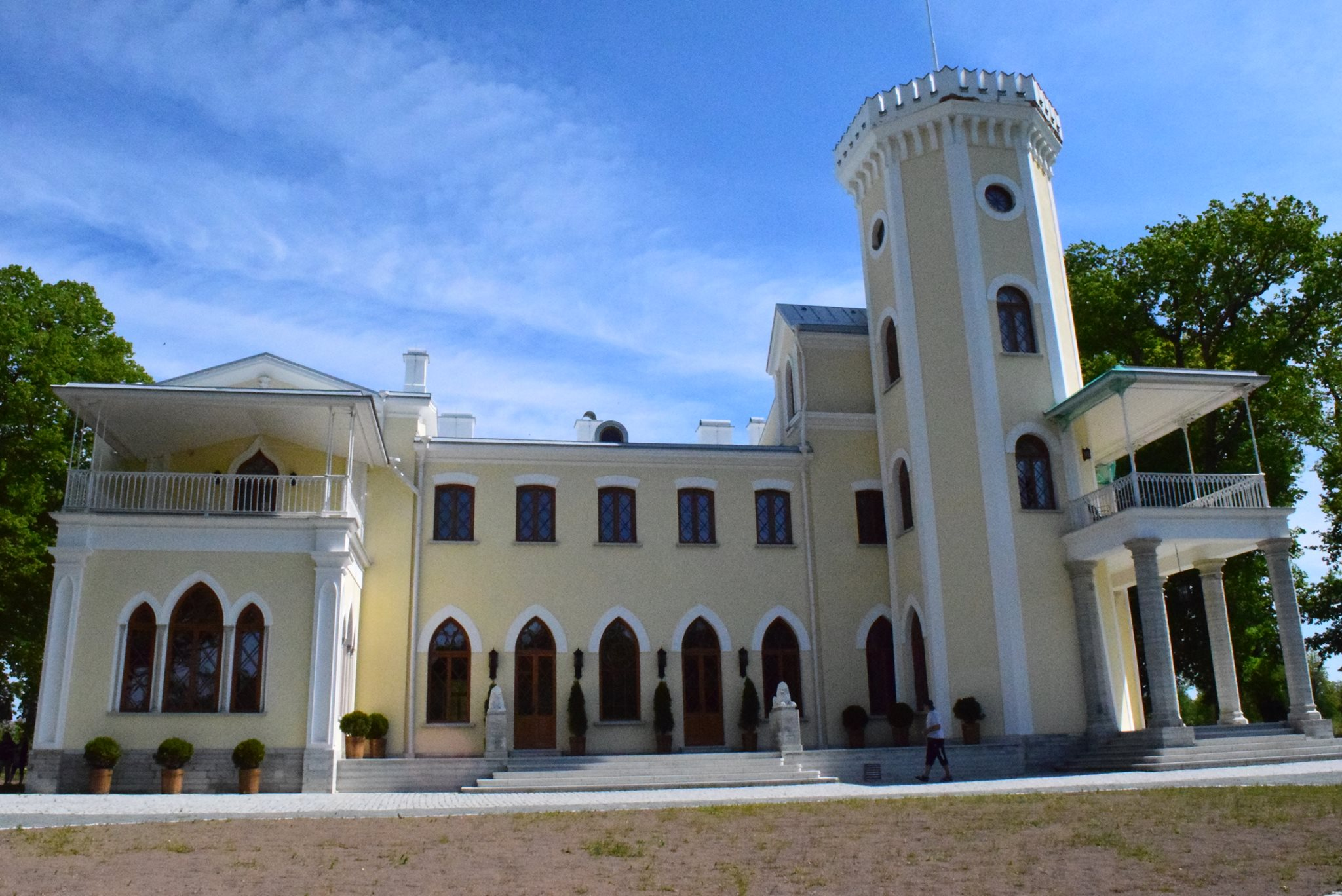 Keila-Joa manor in 2015